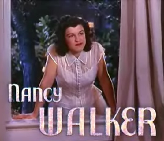 Cropped screenshot of Nancy Walker from the trailer for the film Best Foot Forward